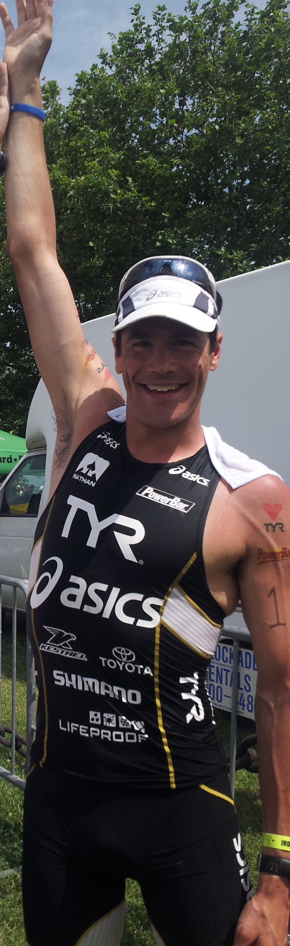 Andy Potts winner of 2013 70.3 Eagleman, Cambridge, MD